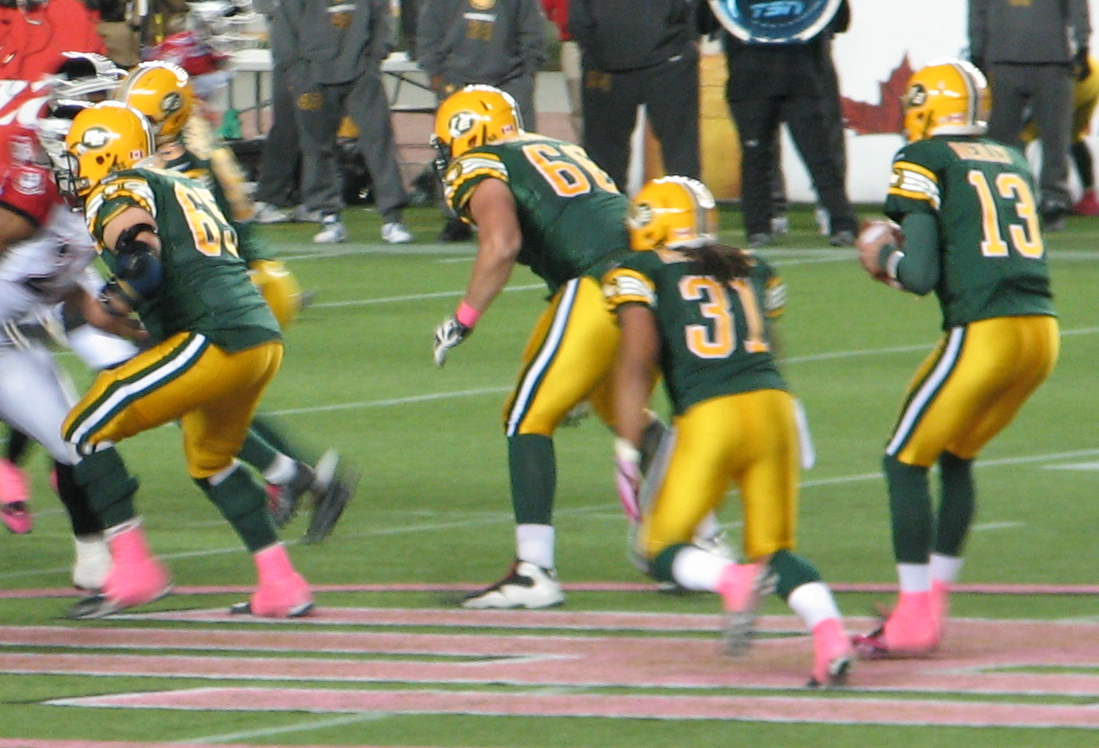 The Calgary Stampeders play the Edmonton Eskimos at Commonwealth Stadium on Friday, 18 October 2013. The Stampeders beat the home town Eskimos by a score of 27-13. Each year the CFL sets aside a weekend to raise awareness for women's cancers and players wear pink tape and gloves to highlight this awareness.